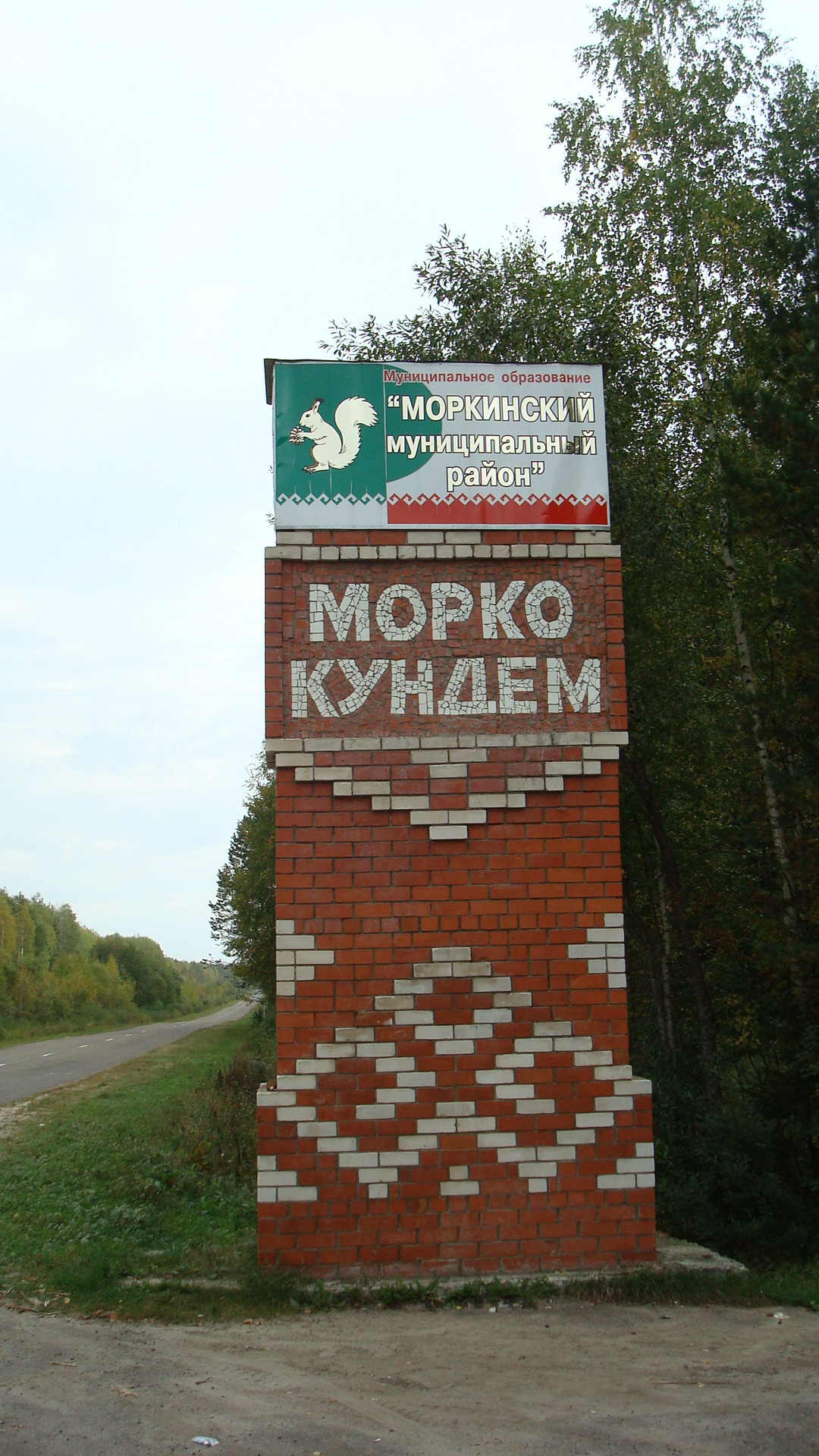 Morko district board